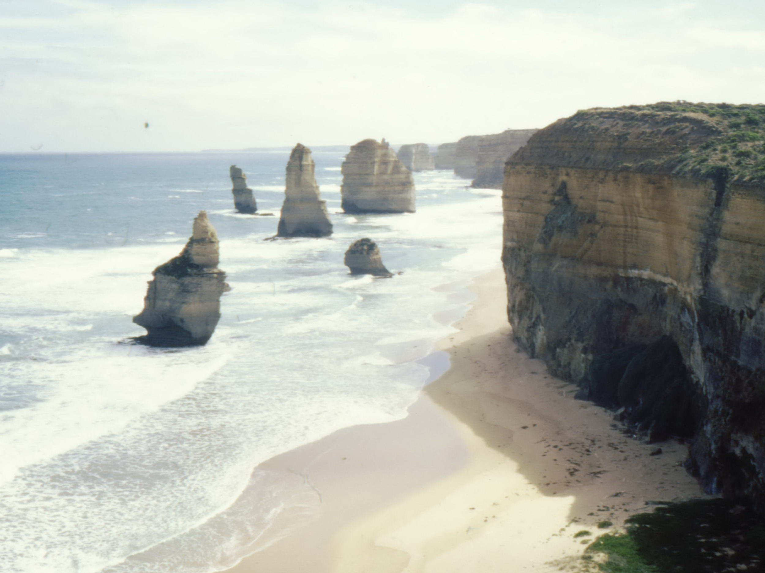 The Twelve Apostles in 2002, before the collapse. Scanned slide, cut to fit together with 12Apostles2012.